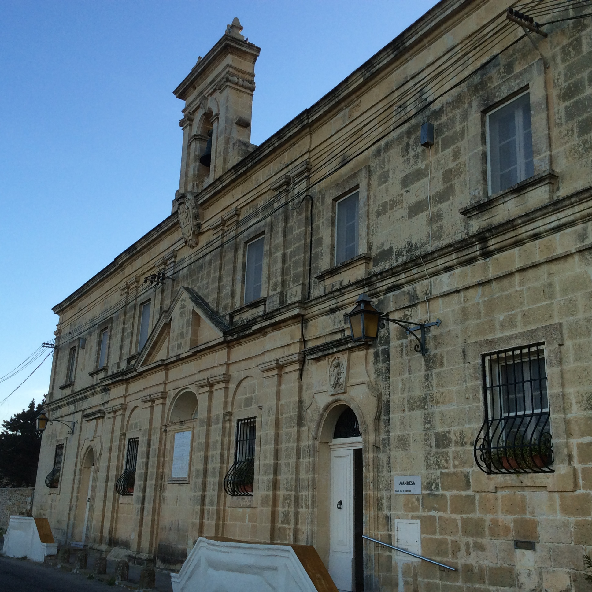 Manresa Retreat House and Church of Our Lady of Manresa This media is about Maltese cultural property with inventory number 00928.